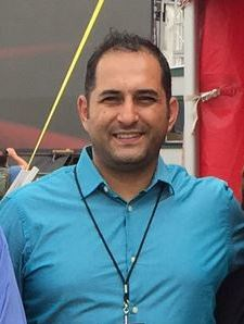 From left to right: Former Associate Director of the Center for Jewish–Christian Understanding and Cooperation, Rabbi Pesach Wolicki, David Nehring, Pastor Steven Khoury, CJCUC U.S. Coordinator, Janet Cain at the LifeLight Music Festival in Sioux Falls, South Dakota, 5 September 2016